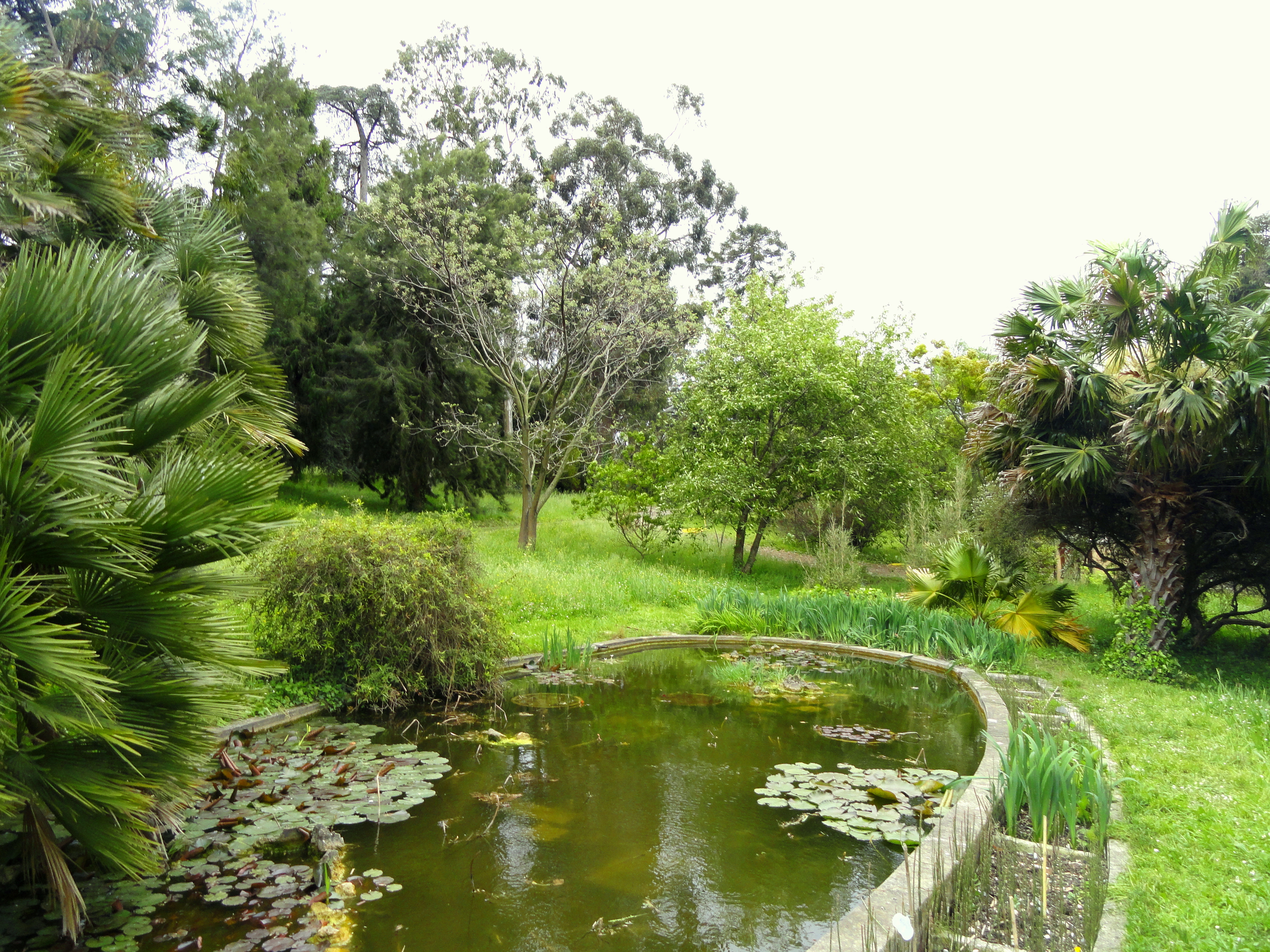 General view of the Jardin botanique de la Villa Thuret, Antibes Juan-les-Pins, Alpes-Maritimes,France.